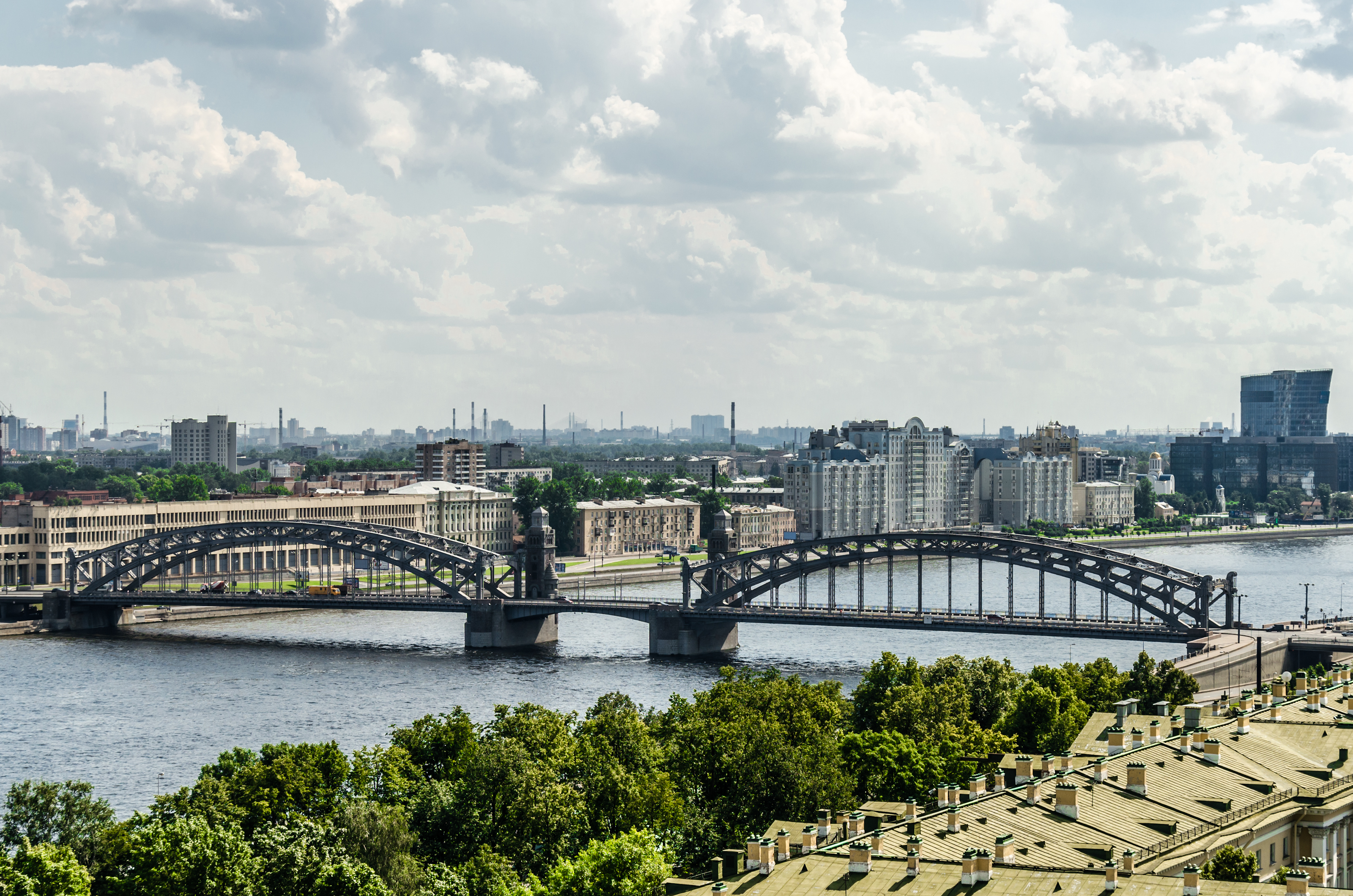 The Bolsheokhtinsky Bridge in Saint Petersburg